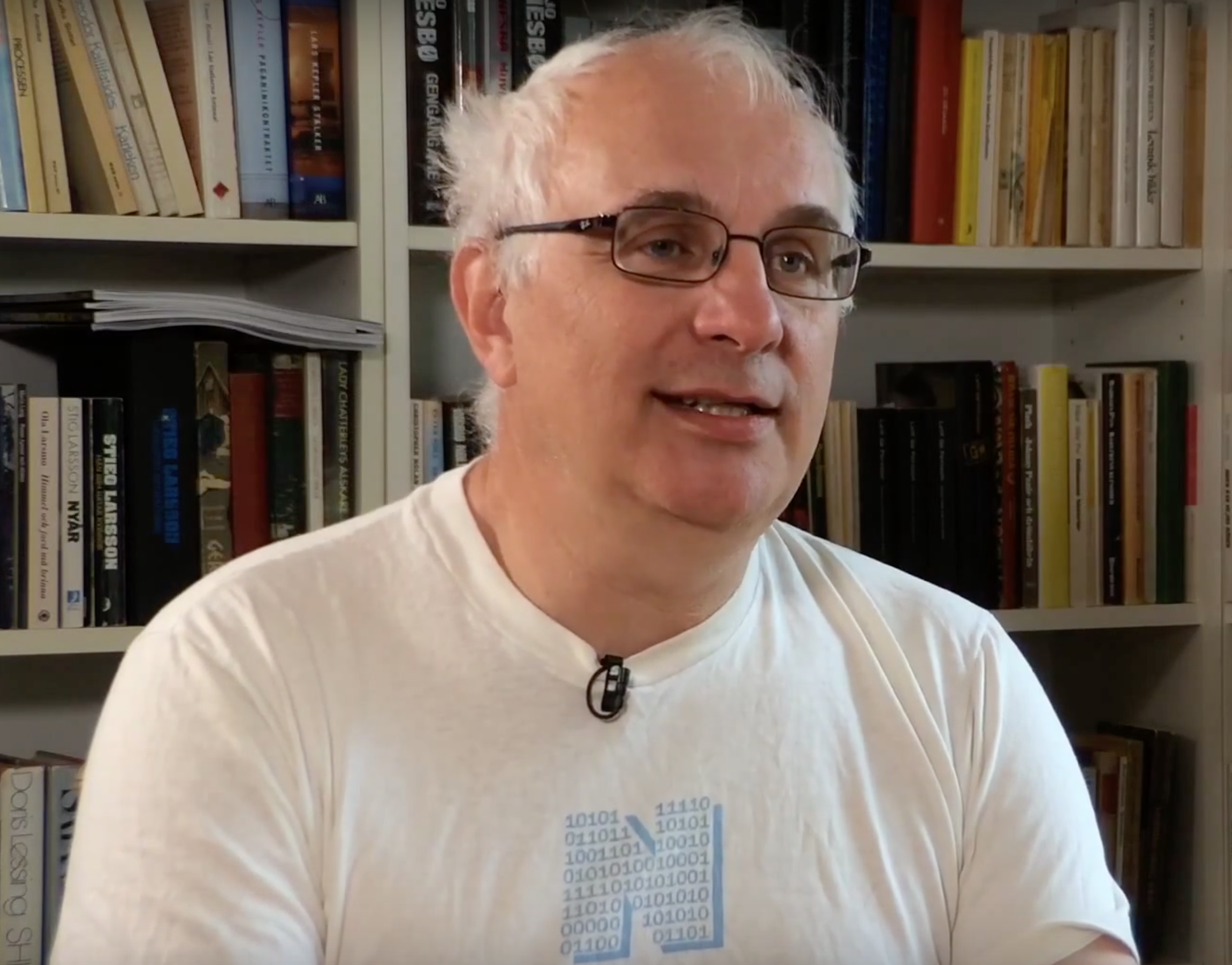 Ulf Bilting, Swedish computer scientist and Internet pioneer.